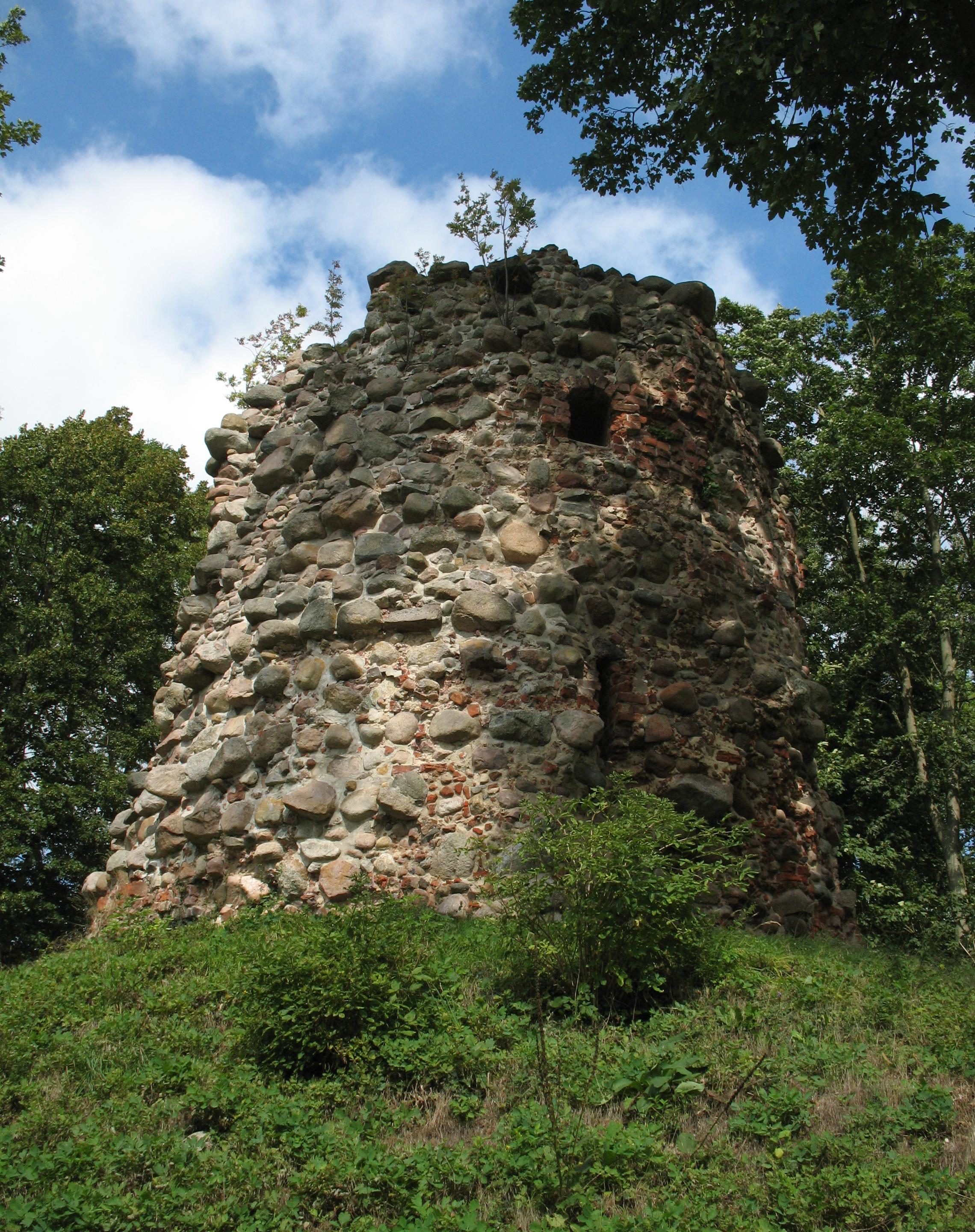 Bergfried in Wasdow in Mecklenburg-Western Pomerania, Germany